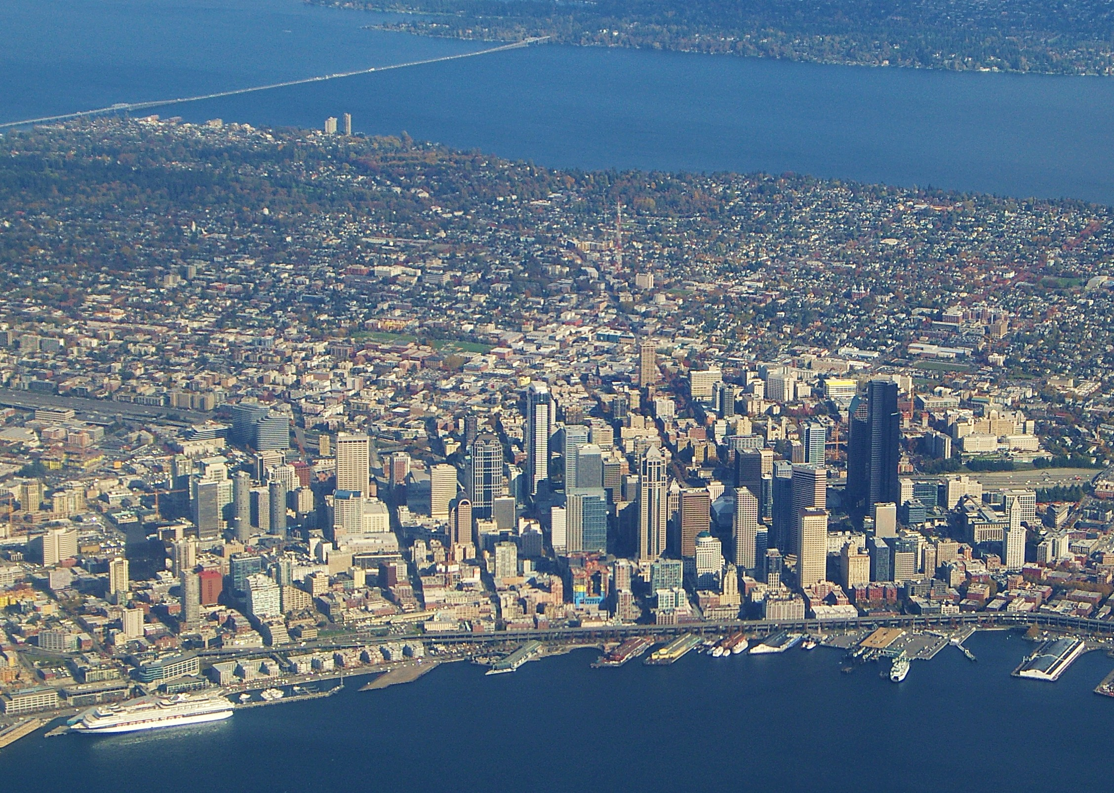 Seattle, WA